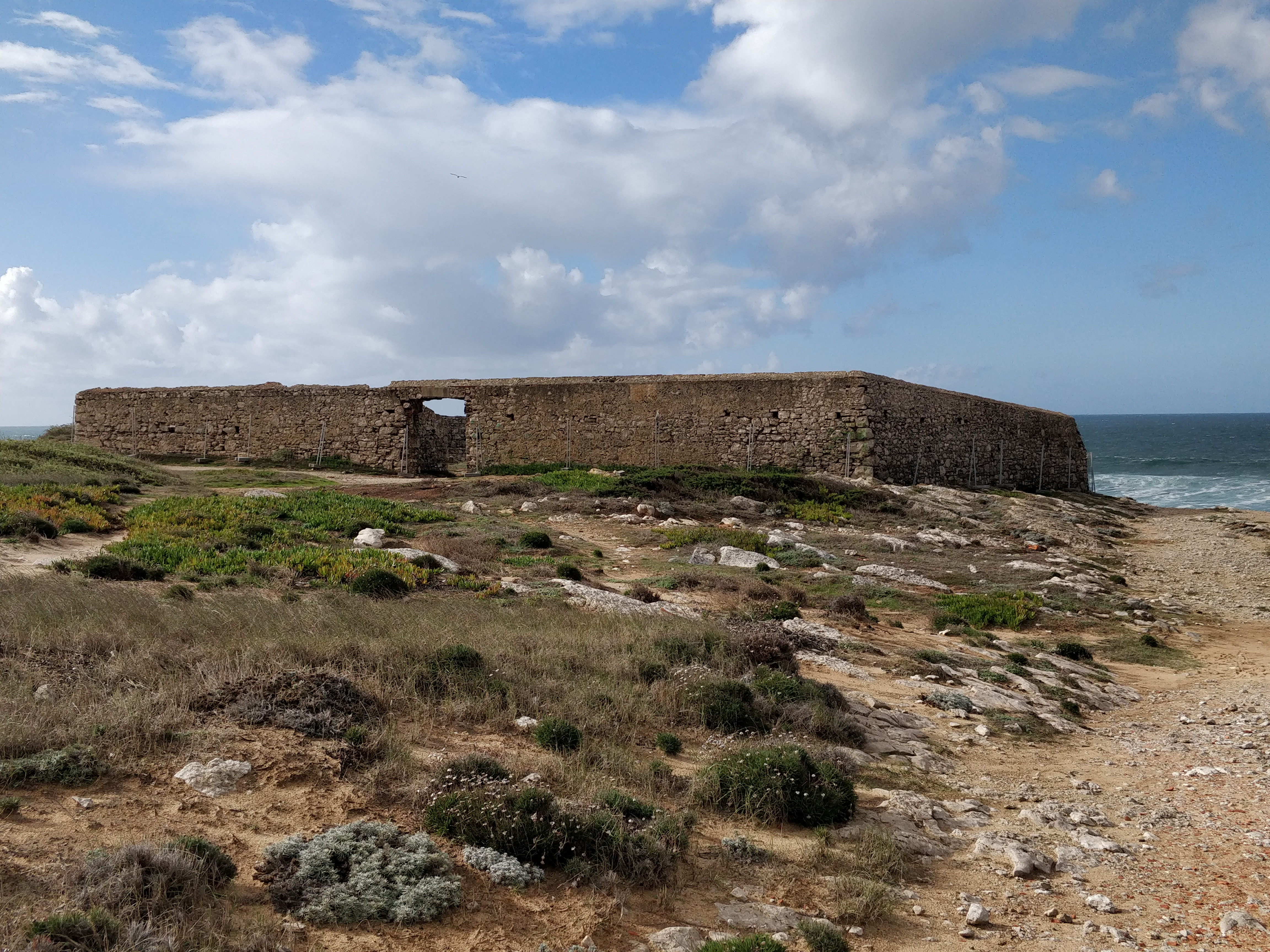 View of the ruined Crismina Fort, Cascais, Portugal